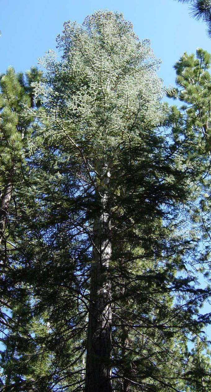 Abies concolor — White Fir. In Yosemite National Park.